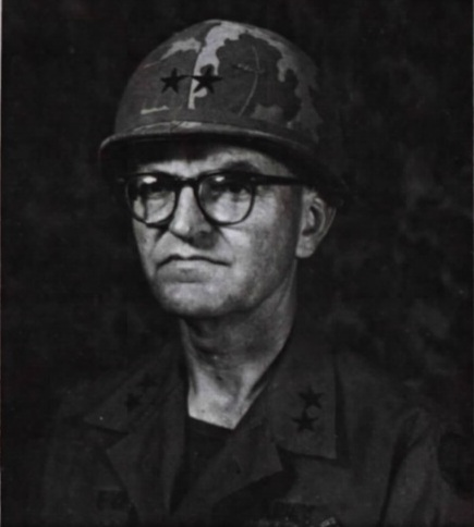 Julian Ewell as Major General and commander of 9th Infantry Division, 1968. From Octofoil, the magazine of the 9th Infantry Division, Volume 1, Number 3 (July-September, 1968)